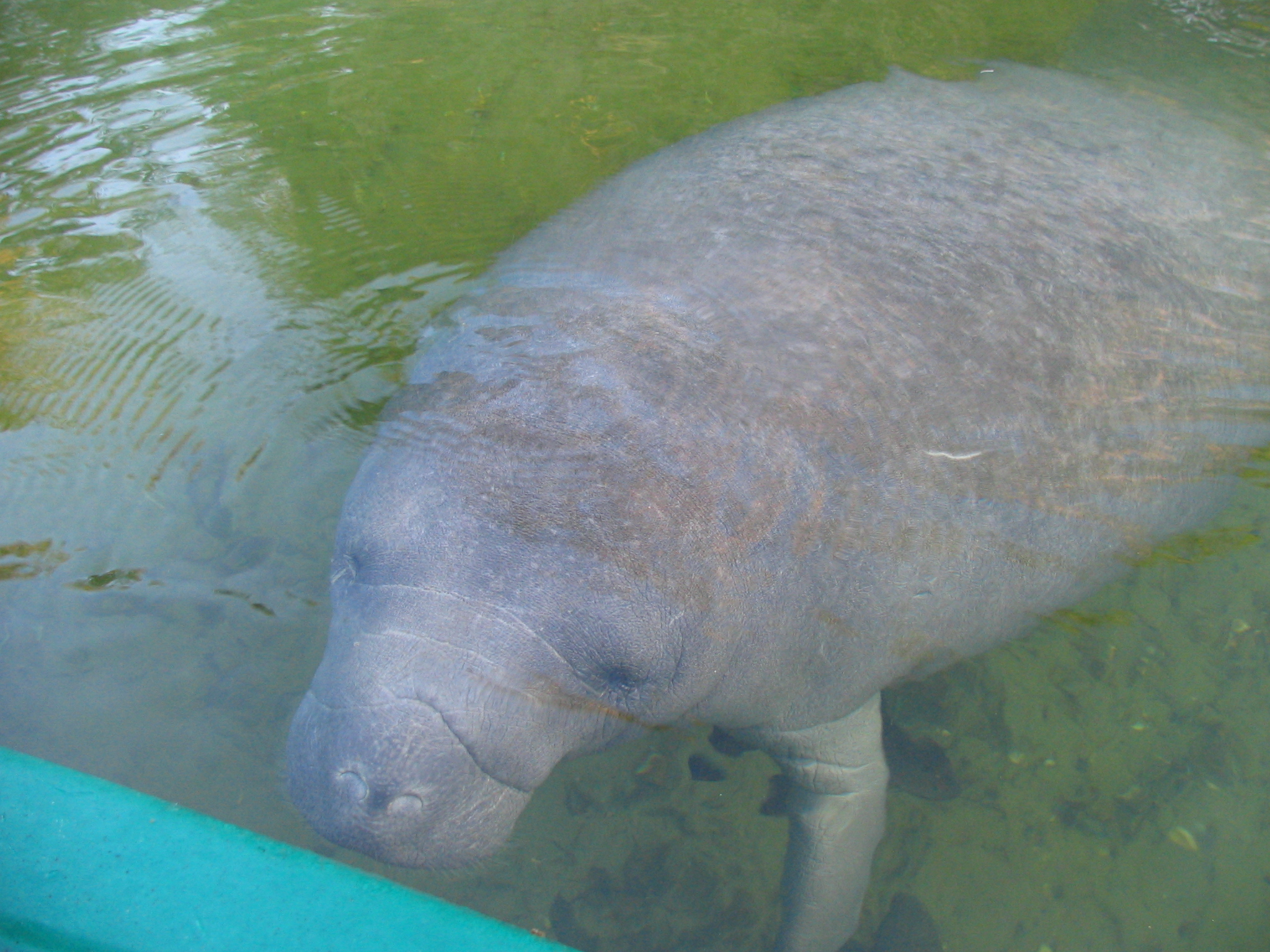 Young Jacob - Blue Spring State Park Florida, USA